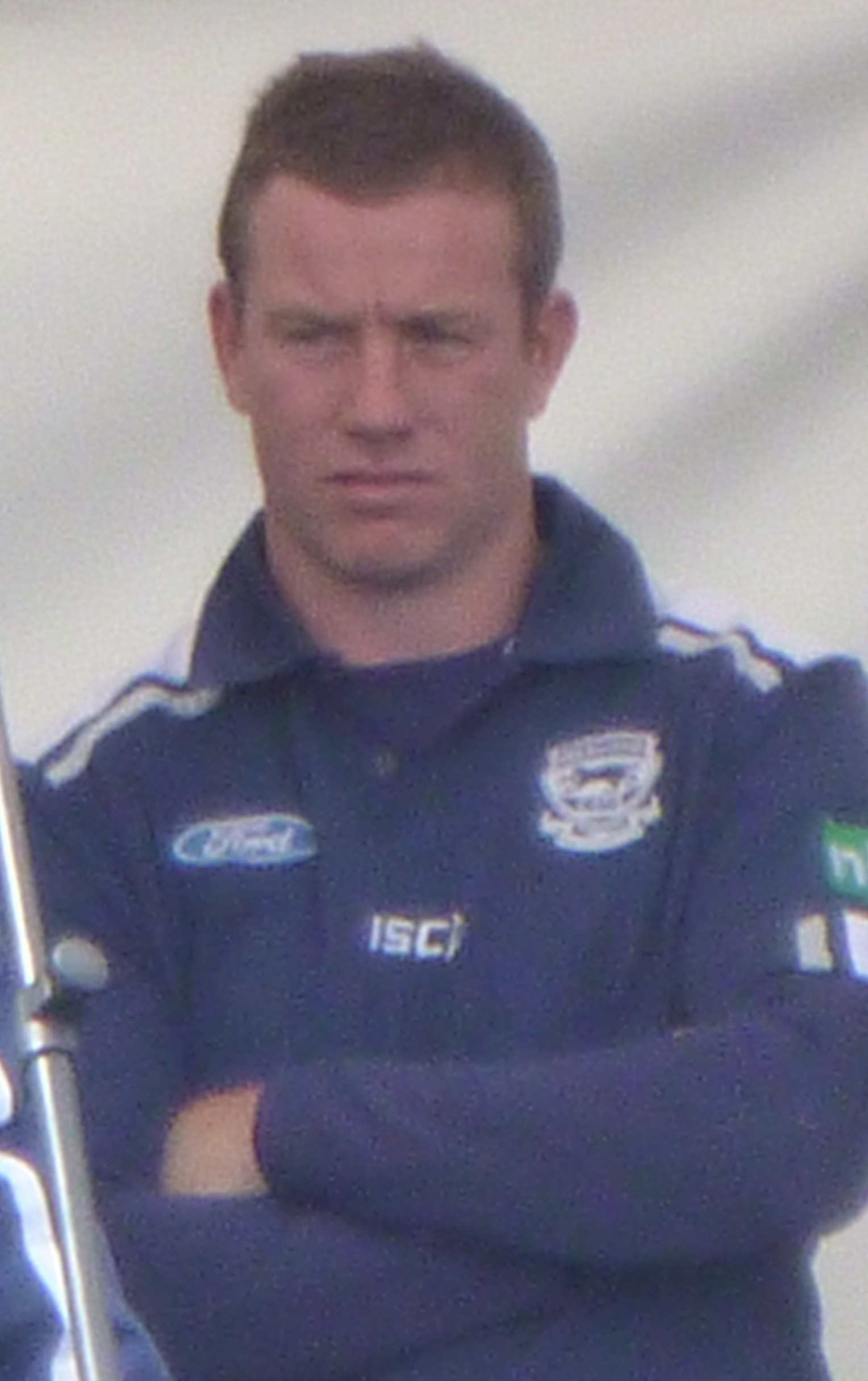 Steve Johnson at the Geelong Football Club's 2011 AFL Premiership victory parade in Geelong, Victoria, Australia.